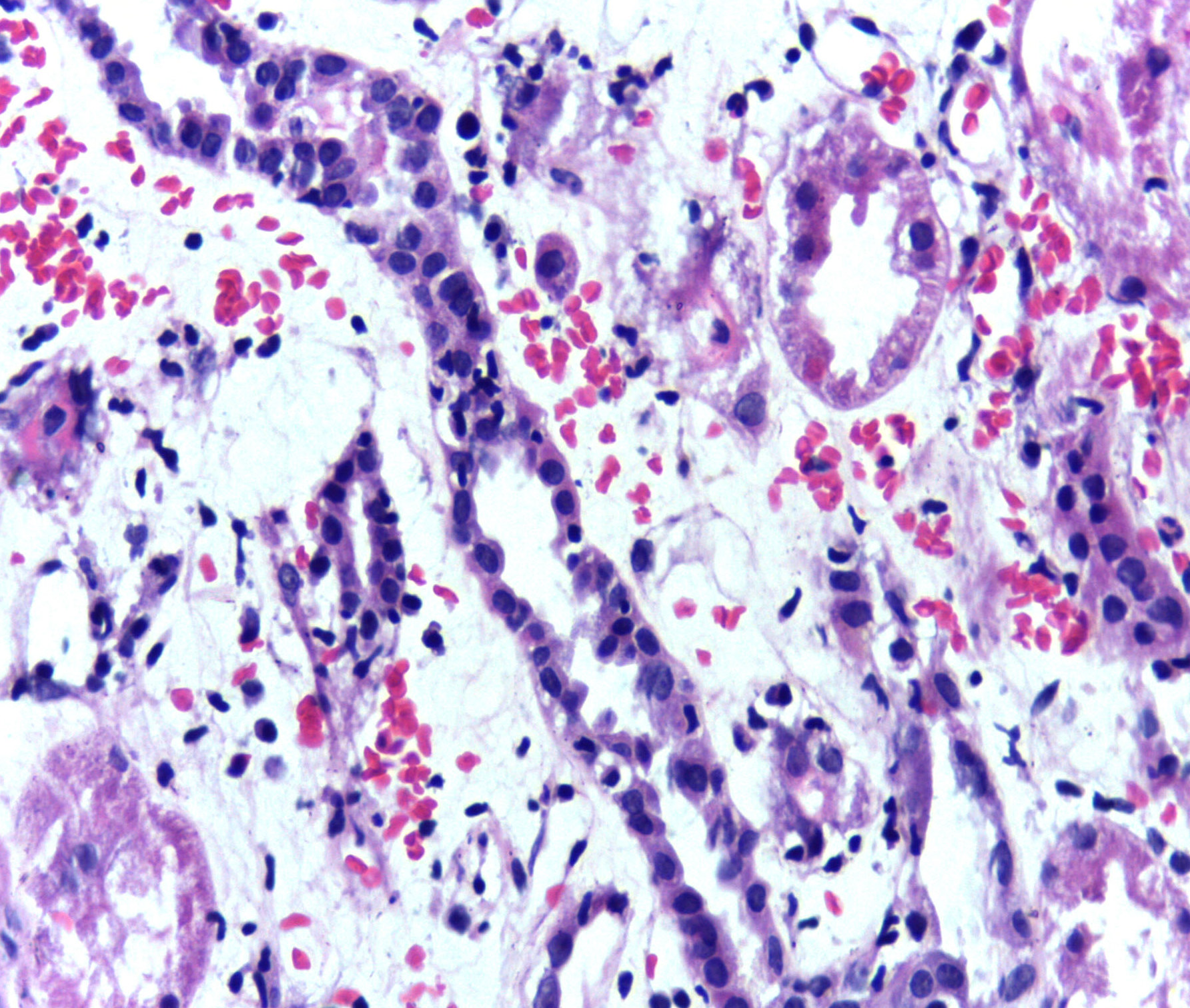 Presence of lymphocytes within tubular epithelium-Tubulitis. It is one of the pathological feature of acute cellular rejection. (H&E,400X)